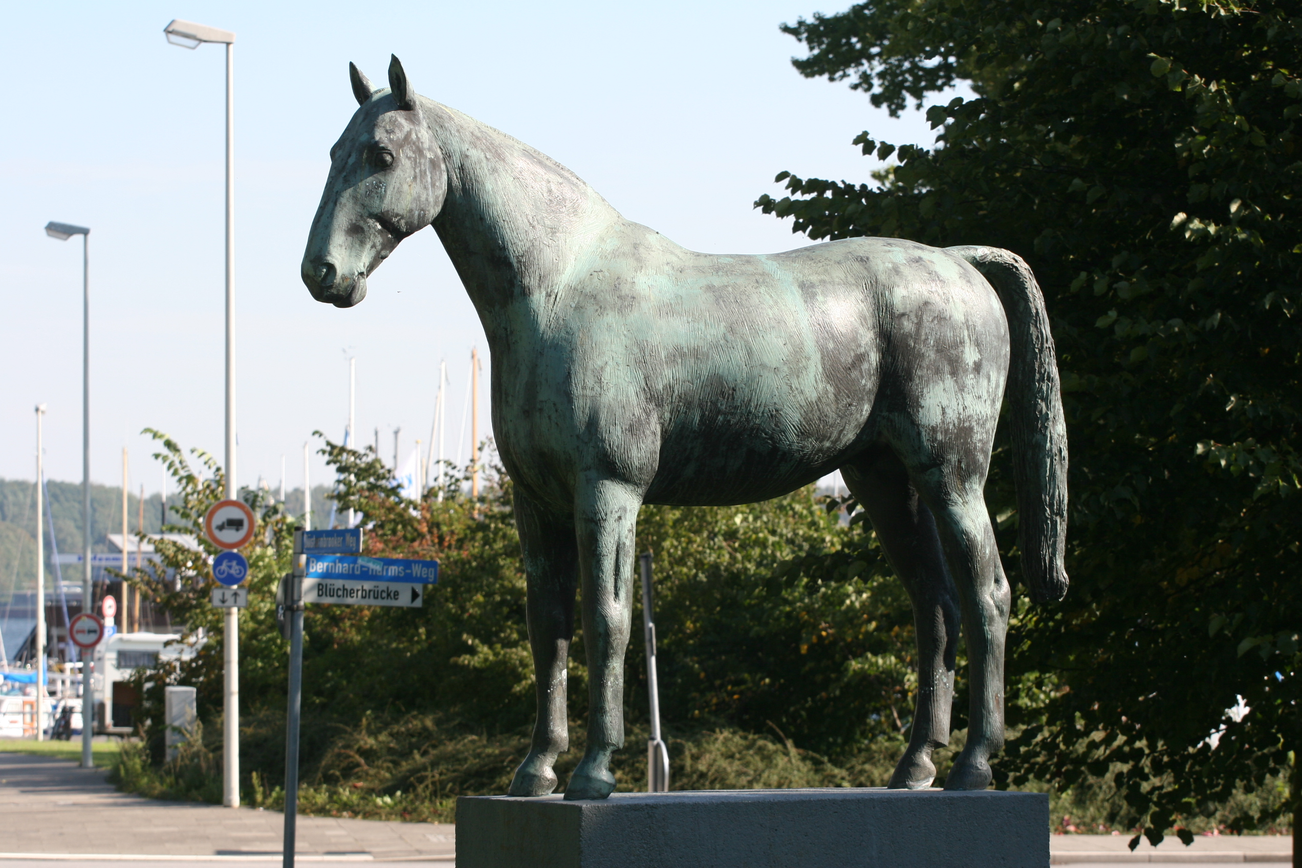 Sculpture: "Meteor" from Hans Kock in Kiel (1957), Germany